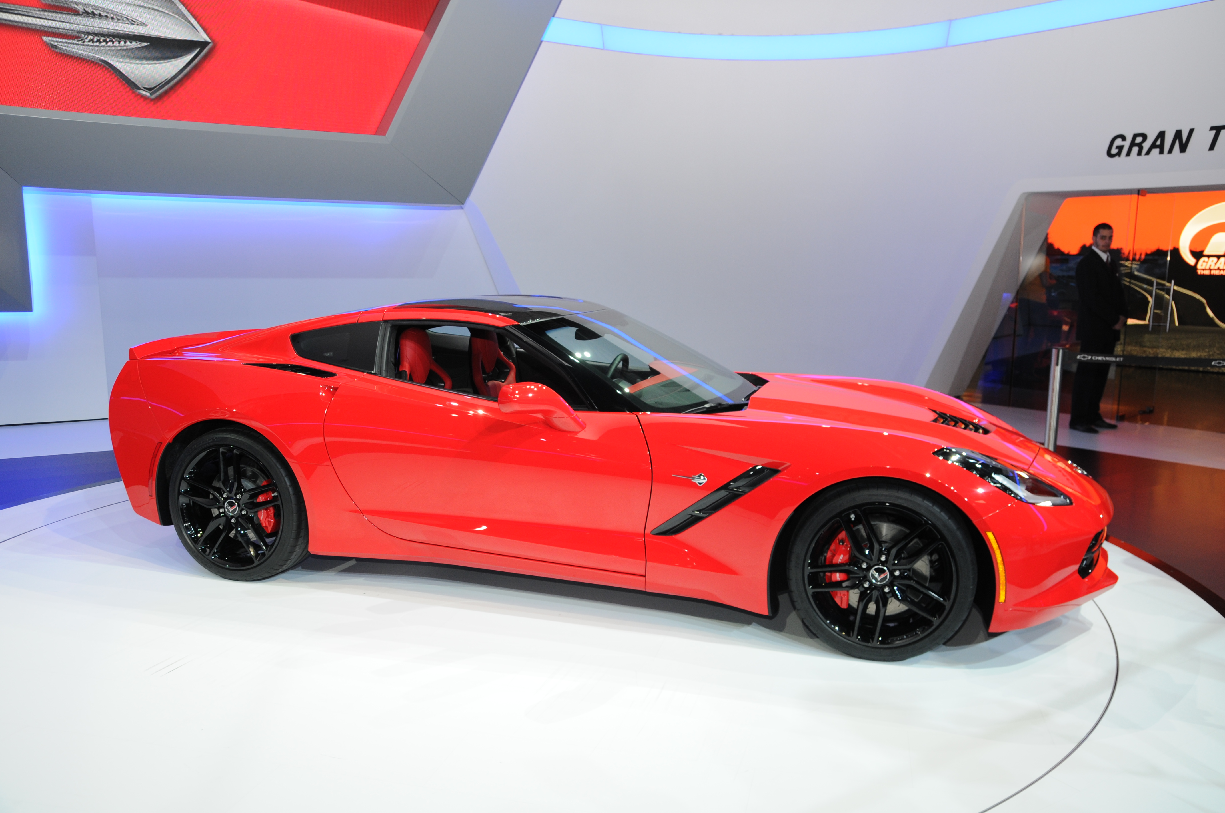 Geneva Motor Show 2013 (photos taken on the first press day)